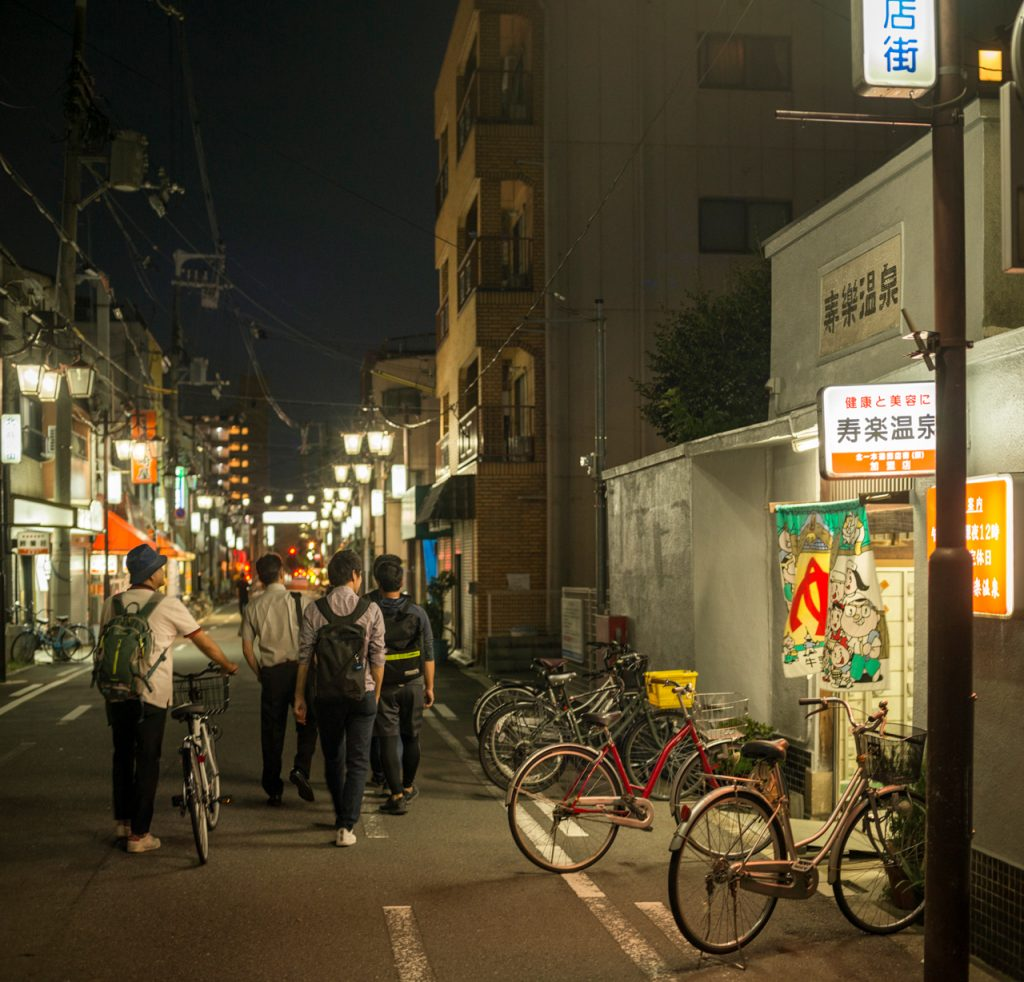 A group of young men walk by Juraku Sentō, a typical community bath house with bicycles parked in front. This sentō is located in the Kitakagaya neighborhood of Osaka, Japan.